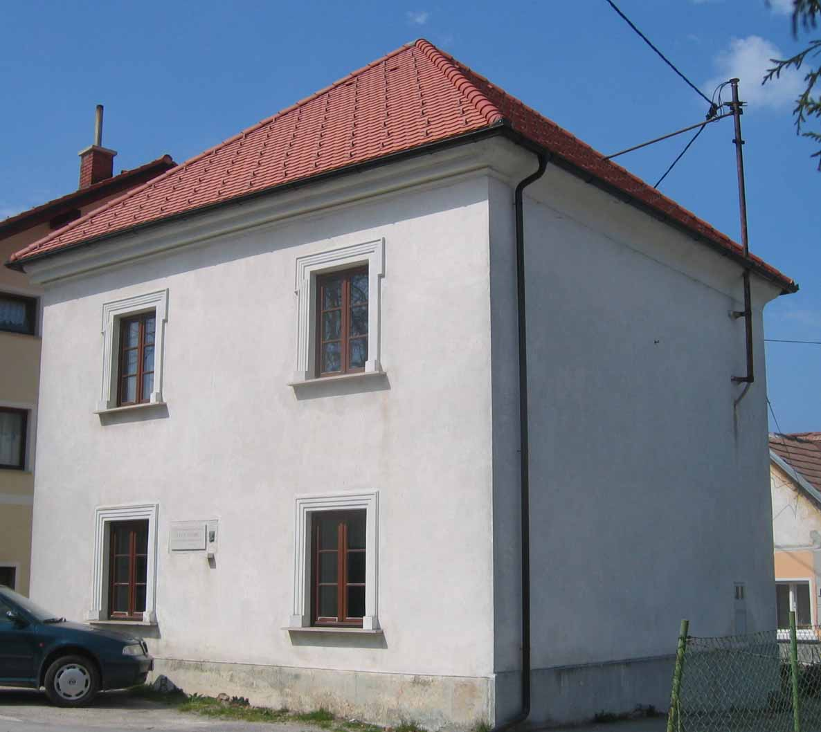 Cerknica, town in Slovenia - birth house of composer Fran Gerbič photo:Ziga 19:35, 7 April 2007 (UTC)